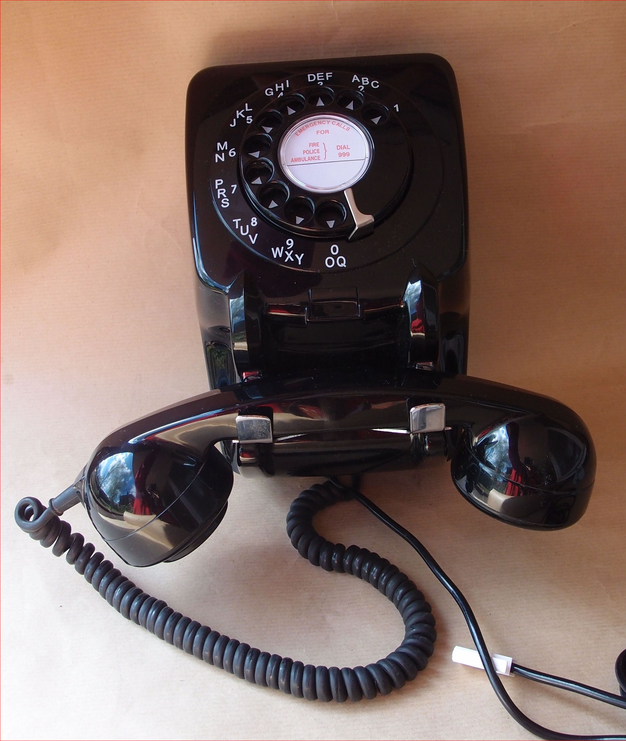 1960s Ericsson Etelphone Black Wall Telephone